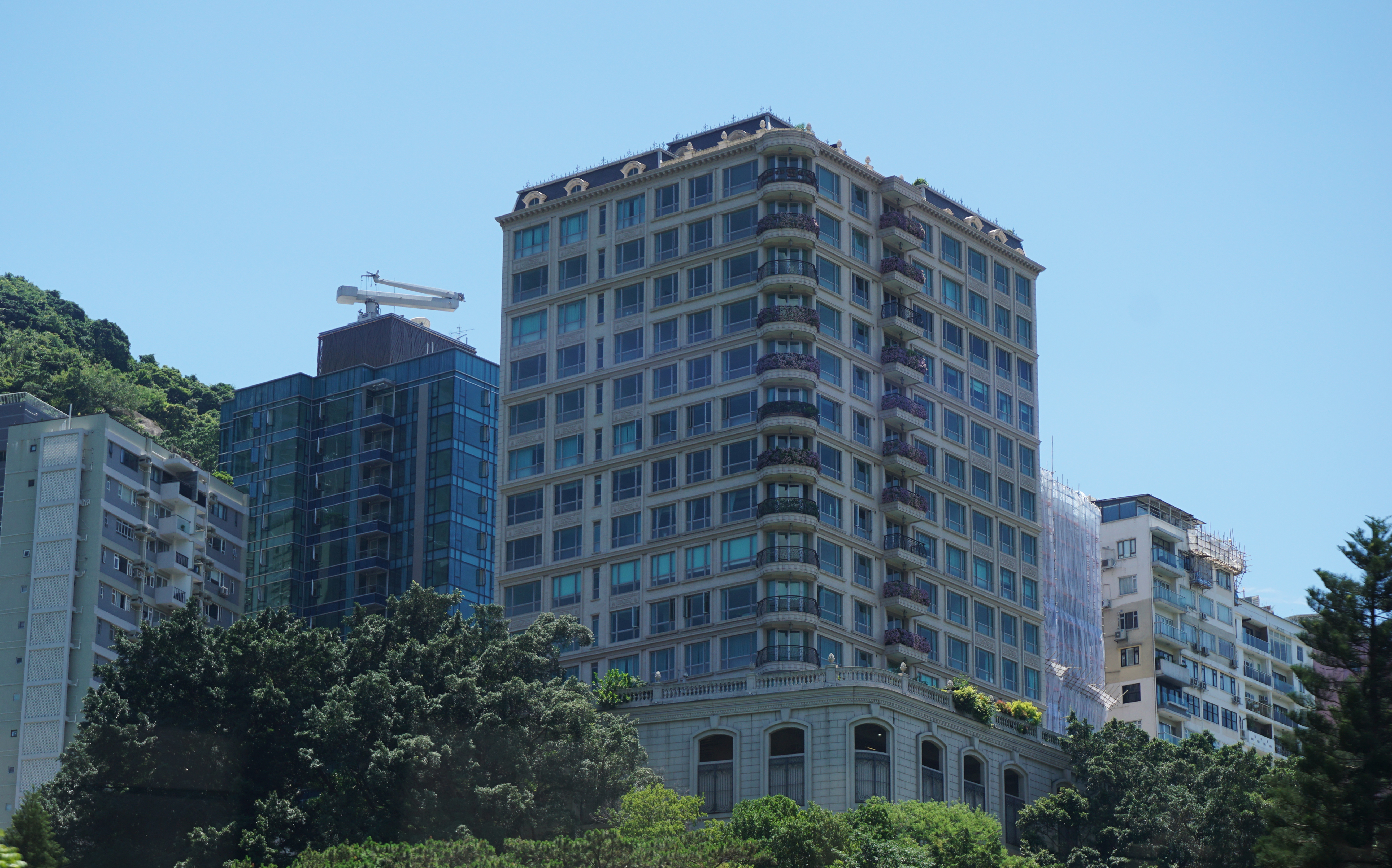 Chantilly in Wan Chai District, Hong Kong.